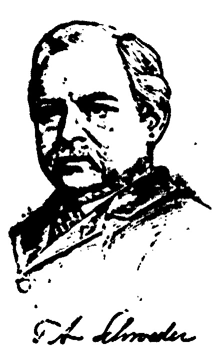 Drawing of Frederick A. Schroeder